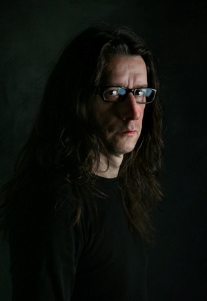 Herman Brusselmans, Flemish novelist, poet, playwright and columnist